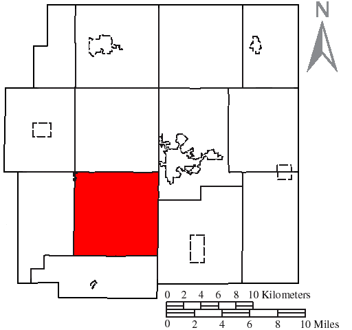 Made by the US Census and modified by myself